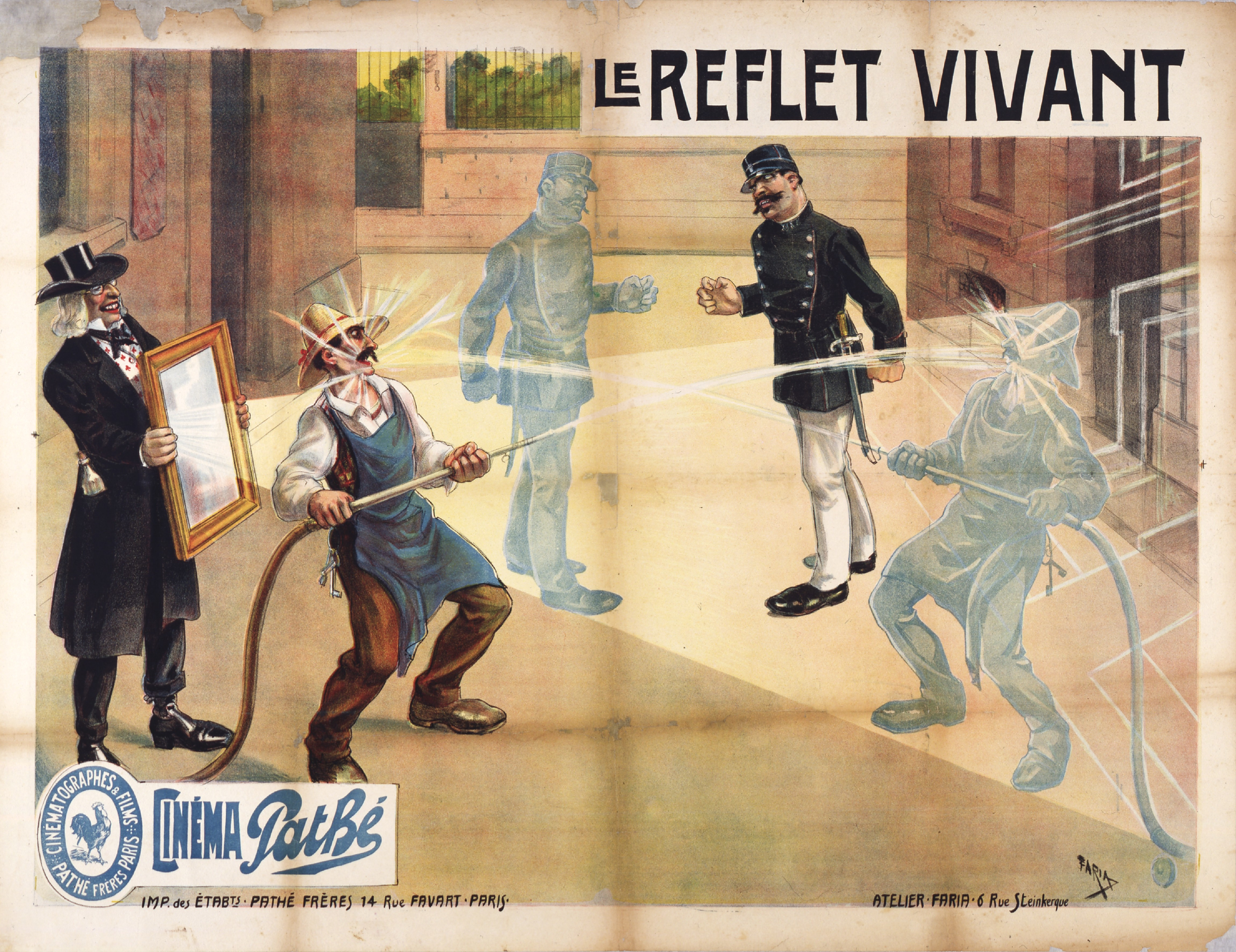 Poster for Pathé Frères (France). Film: Reflets vivants, Les (FR, Camille de Morlhon, 1908, Pathé Frères. Distributor: Internationaal Filmverhuurkantoor Jean Desmet (Amsterdam).